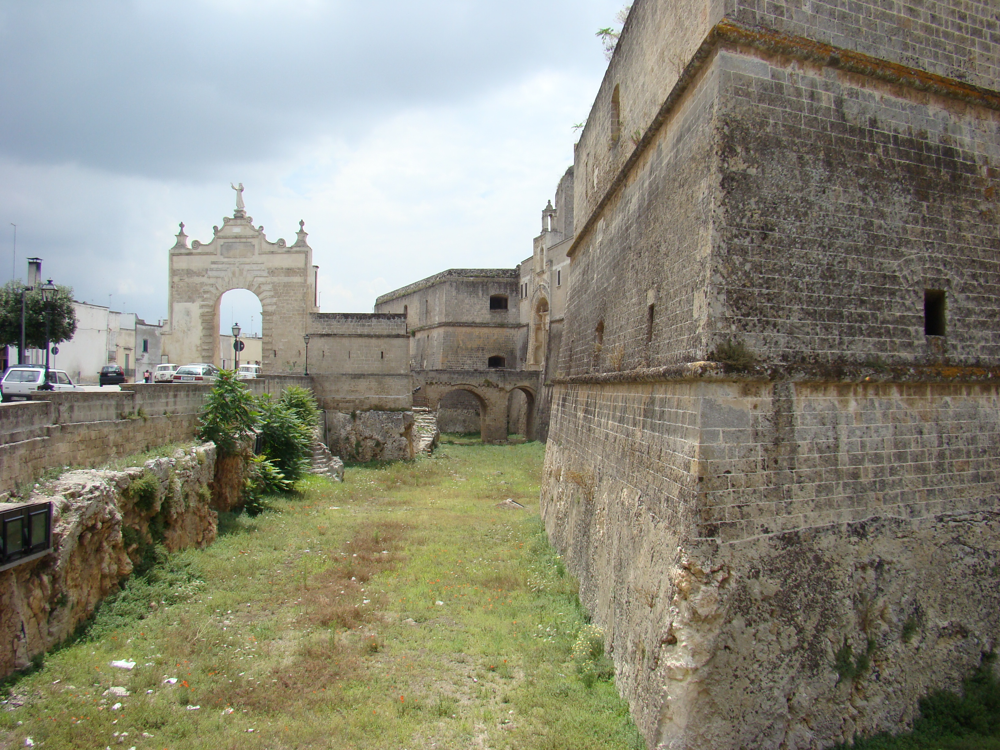 Copertino - Castle